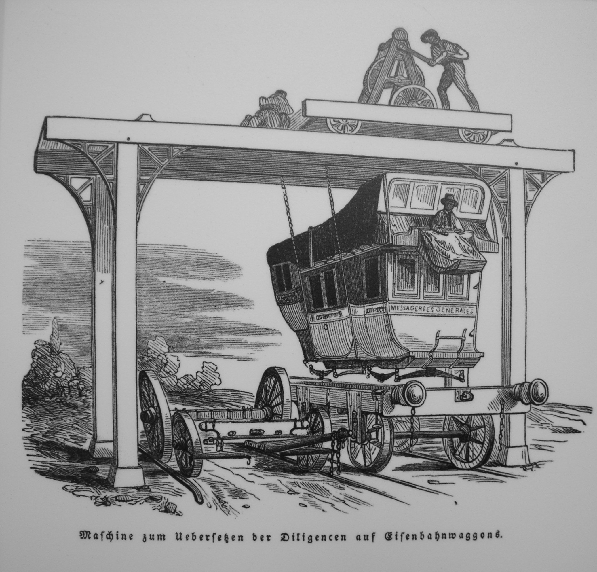 Stagecoach being transferred to a railway car with a simple Portainer. This is an example of early Intermodal freight transport by the French Mail 1844. The picture is exhibited in Deutsches Museum Verkehrszentrum, Munich, Germany.